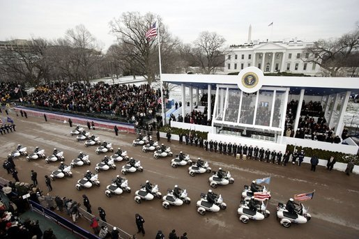 A procession of motorcycles leads the Inaugural Parade down Pennsylvania Avenue past the President's reviewing stand in front of the White House, Jan. 20, 2005. President George W. Bush and Laura Bush traveled with the parade after a swearing-in ceremony for the President at the U.S. Capitol.